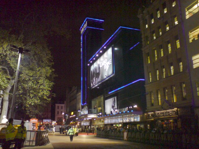 Odeon, Leicester Square The Odeon Leicester Square is one of London's main venues for film premieres. This picture was taken on the evening of the James Bond "Casino Royale" premiere and 30 minutes later the Queen emerged from the cinema followed by a star studded audience.